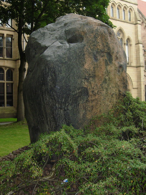 Glacial erratic at University of Manchester This 20+ ton erratic of andesite from Borrowdale in the Lake District, was placed in the university's main quadrangle behind Manchester Museum, on Oxford Road, after being excavated 28 feet down at the junction of "Oxford Street and Ducie Street Manchester" (according to the nearby plaque). It is not clear where this site was, because Ducie Street and Oxford Street are separated by about half a mile of city centre along a line that the Rochdale Canal roughly follows - perhaps it dug up during the canal excavations - the Rochdale Canal's main Manchester basin is by Ducie Street. My reading of the recent review of the last glaciation to affect Northwest England suggests it would probably have been deposited between 25,000 and 19,000 years ago. You can find it here